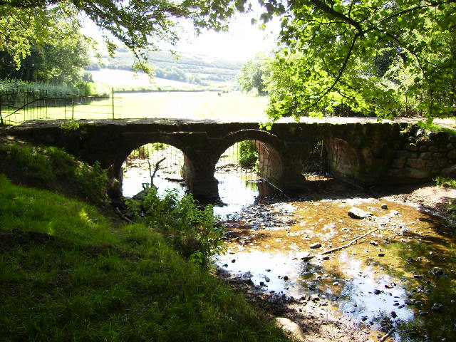 Bow Bridge, near Barrow-in-Furness, Cumbria, England.